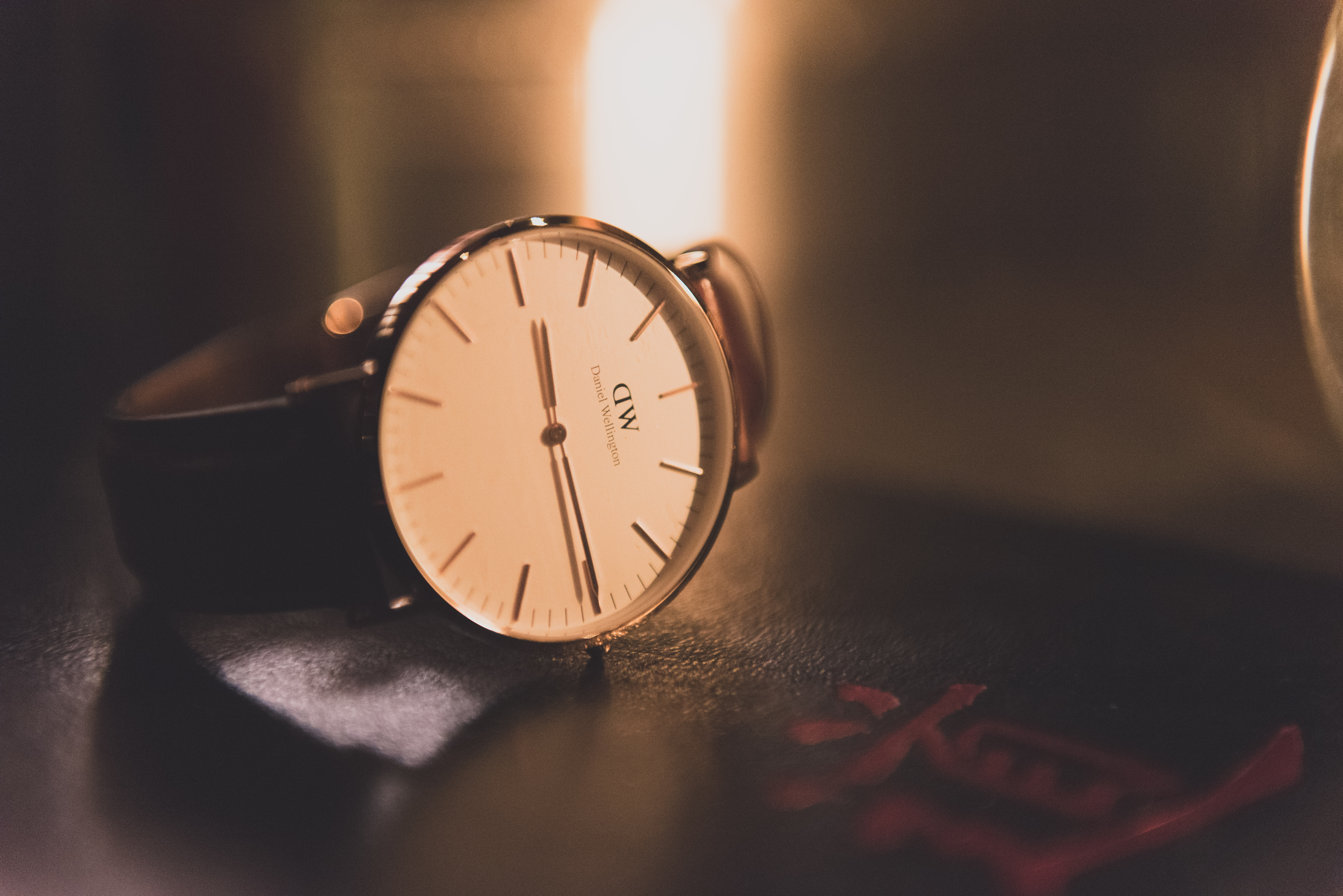 Tao Downtown, New York, United States